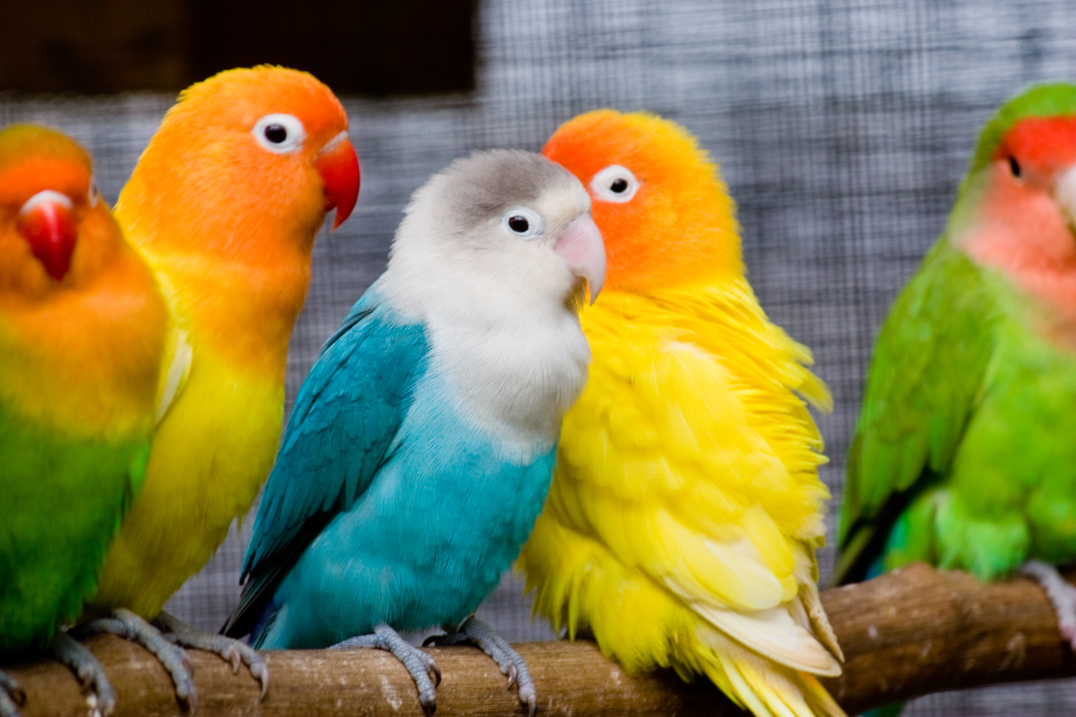 Lovebirds on a perch